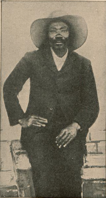 Jacob Morenga, leader of African partisans in the insurrection against German colonial rule